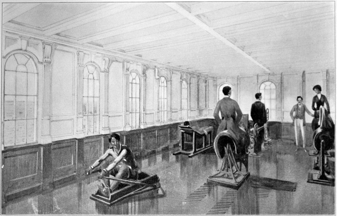 Gymnasium of the RMS Titanic